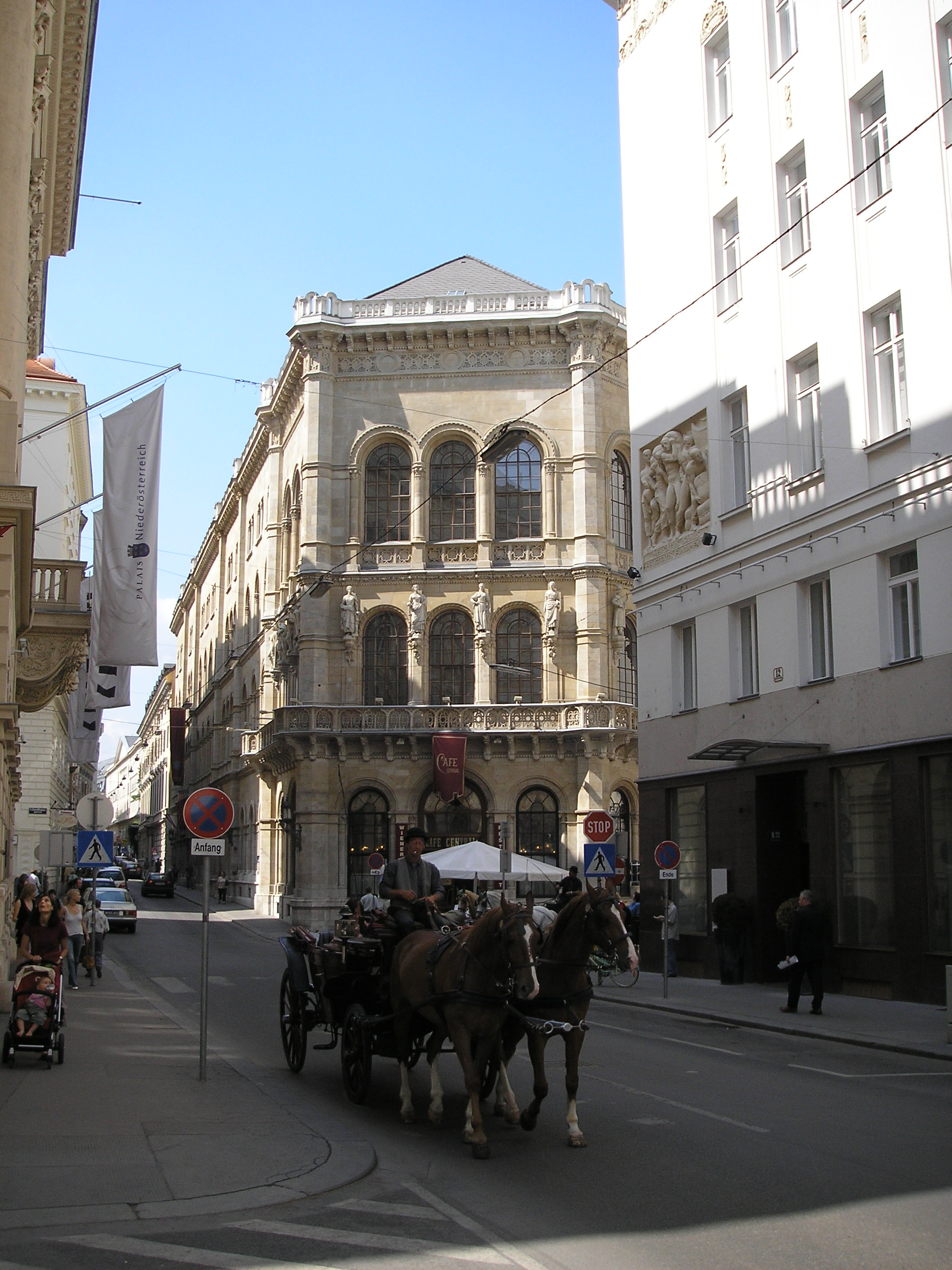 The Palais Ferstl, the former Austro-Hungarian Bank building, close the Freyung, Vienna. Constructed by Baron Heinrich von Ferstel. Entrance side to Café Central.